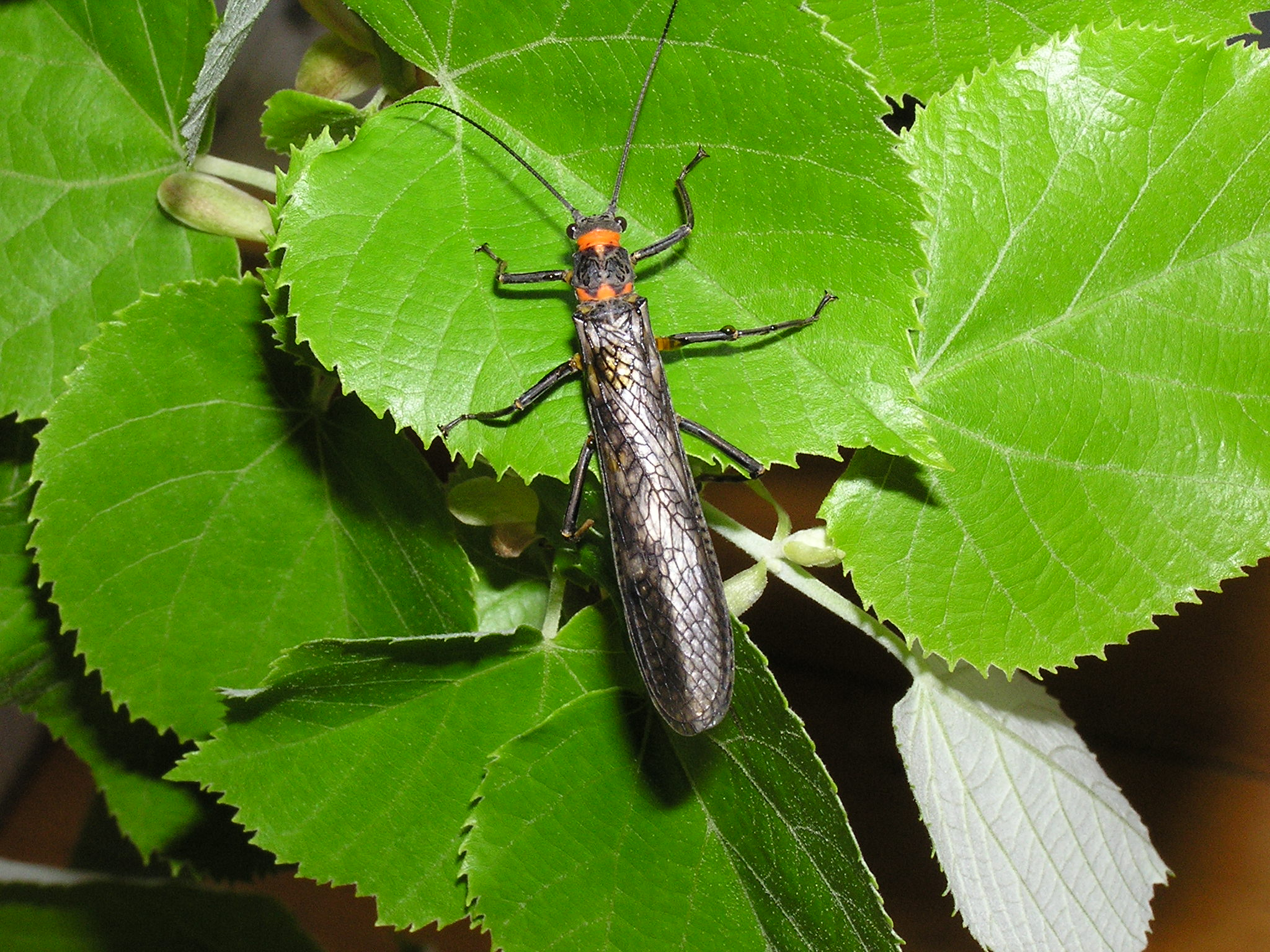 Pteronarcys pictetii, IL: Vermilion Co., Middle Fork Vermilion River, 4/25/2009.